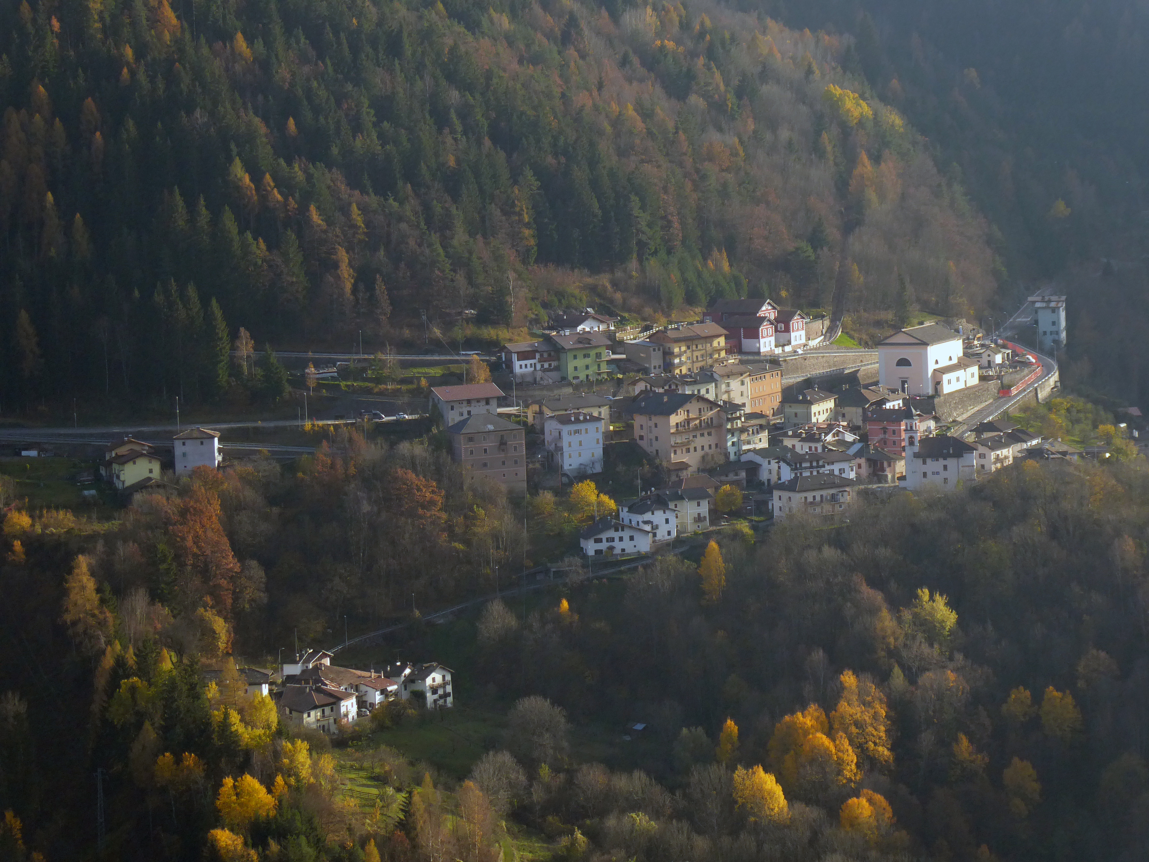 Casatta (Valfloriana) as seen from Capriana